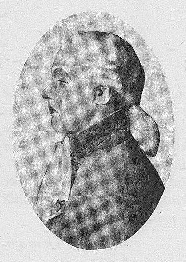 Finnish theatre personality, early 1930s.